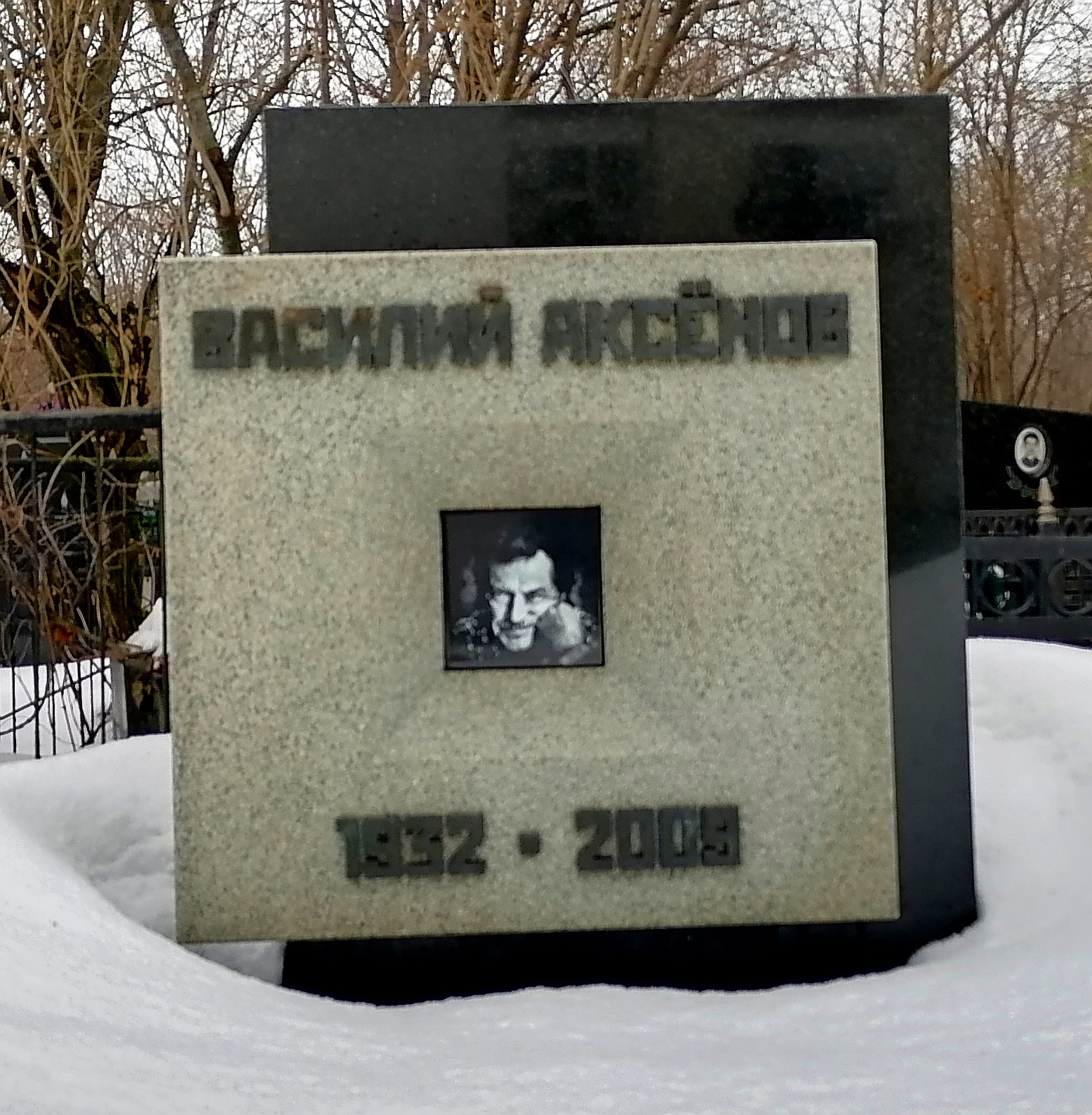 Grave of Vasily Aksyonov in Mosvow